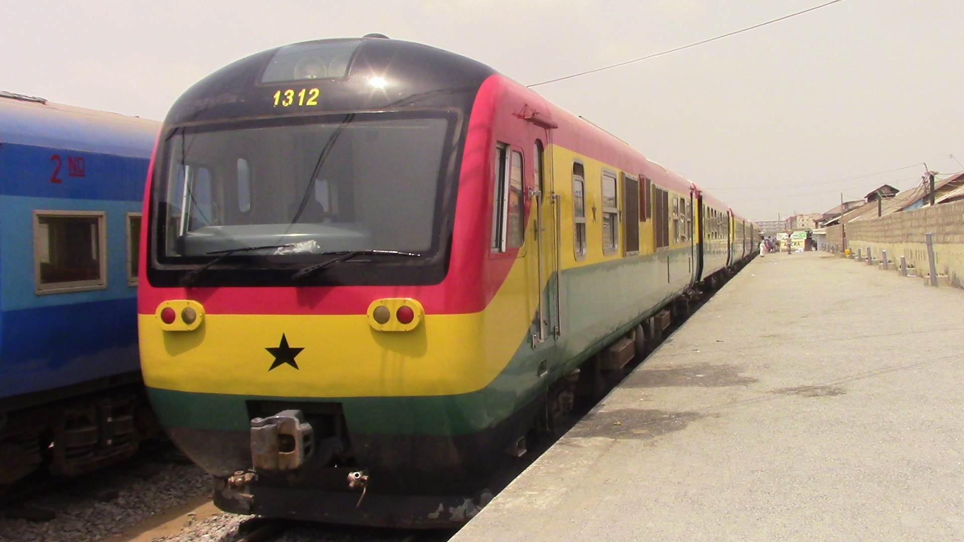 A train parked at the Accra train station